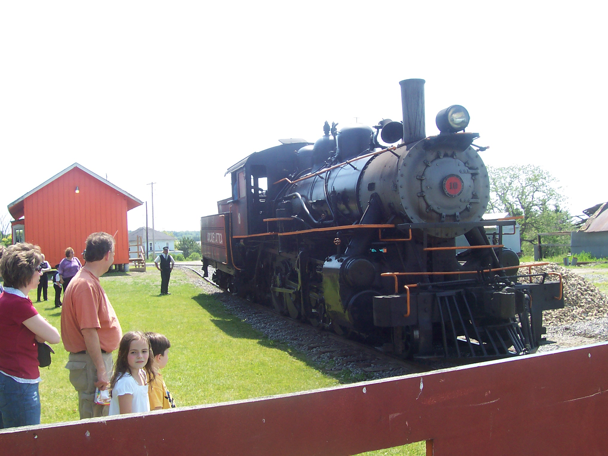 Photo of the Arcade and Attica Railroad steam locomotive at Curriers, New York